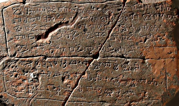 The Župa Dubrovačka Glagolitic inscription, 10th or 11th century, after the restauration in the Archaeological Museum in Split